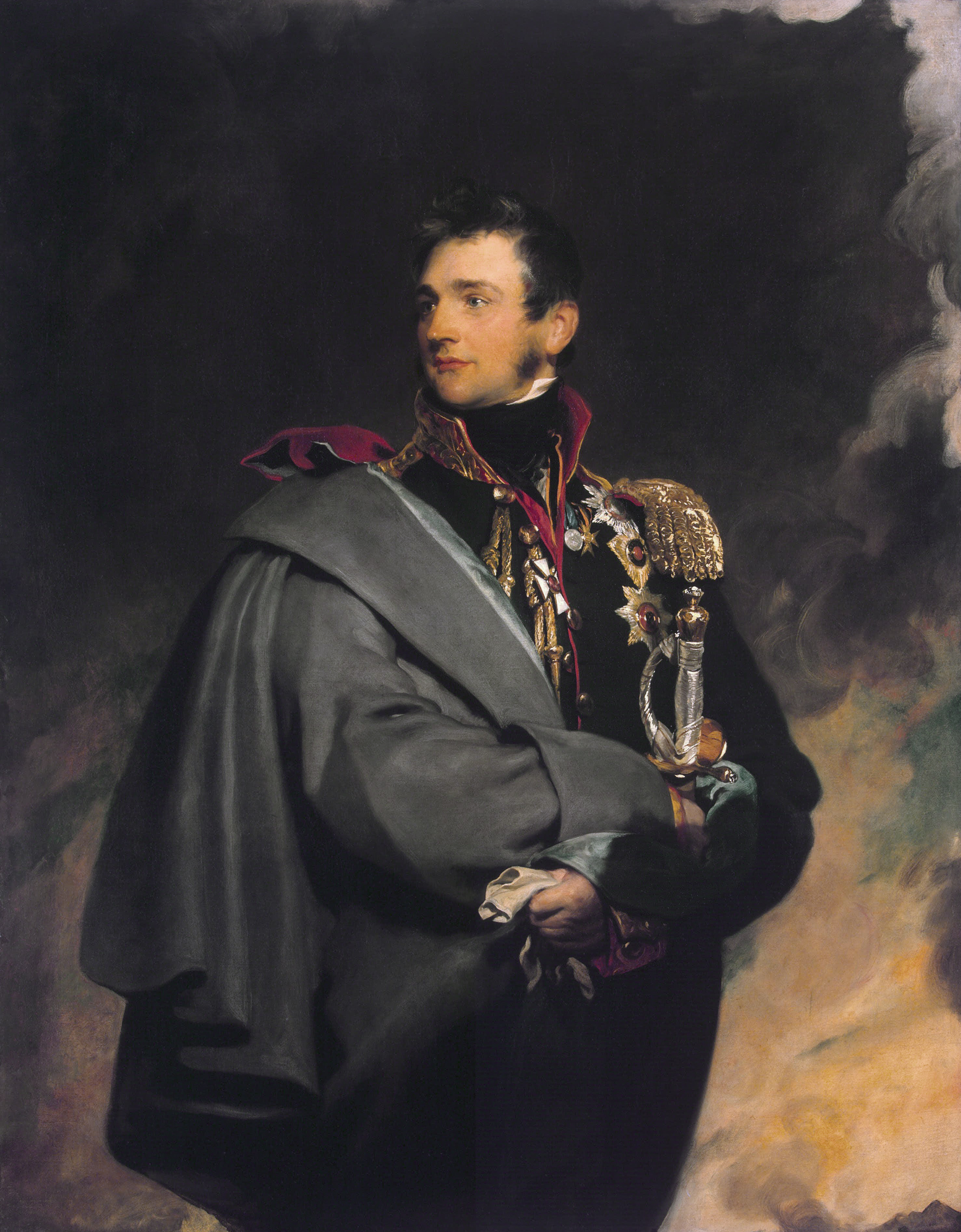 Prince Mikhail Semyonovich Vorontsov (1782-1856) was raised in London, where his father was the Russian Ambassador. He sat to Lawrence in late 1821. He served as a military commander in the Napoleonic Wars and the Caucasus, becoming Field Marshal in 1856 at the end of his life. He was appointed Governor General of the new southern Russian provinces in 1823, and in 1844 commander-in-chief and viceroy of the Caucasus. He built palaces in Odessa and the Crimea, brought steamboats to the Black Sea, and prosecuted successful military campaigns throughout the area. His wife is remembered as the inspiration for some of Alexander Pushkin's poetry.